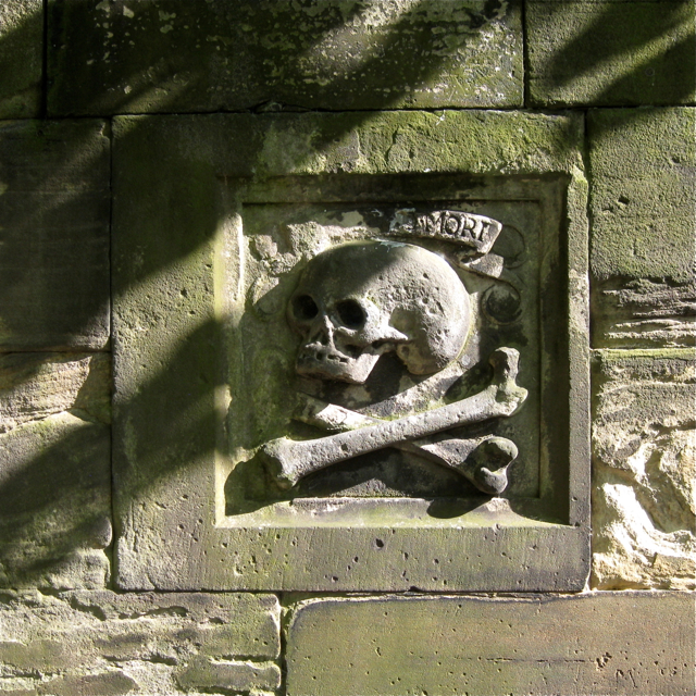 Memento Mori, Greyfriars Kirkyard